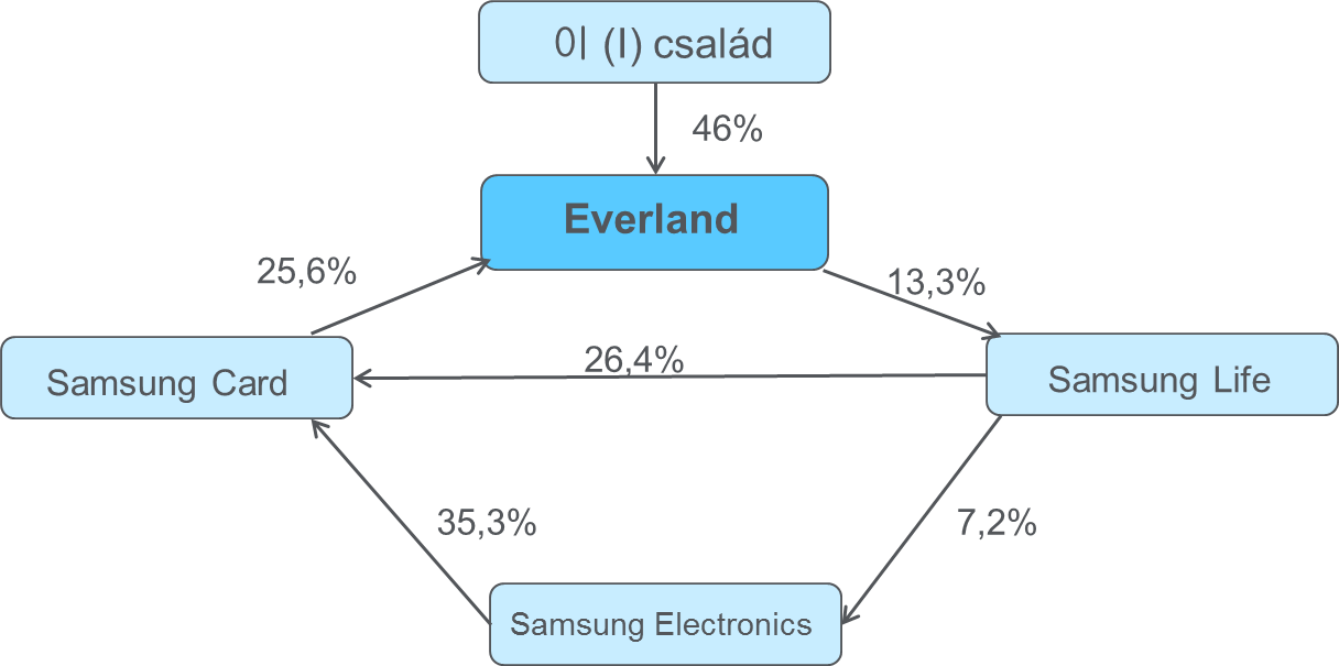 Structure of Samsung shreholders, 2009 data based on